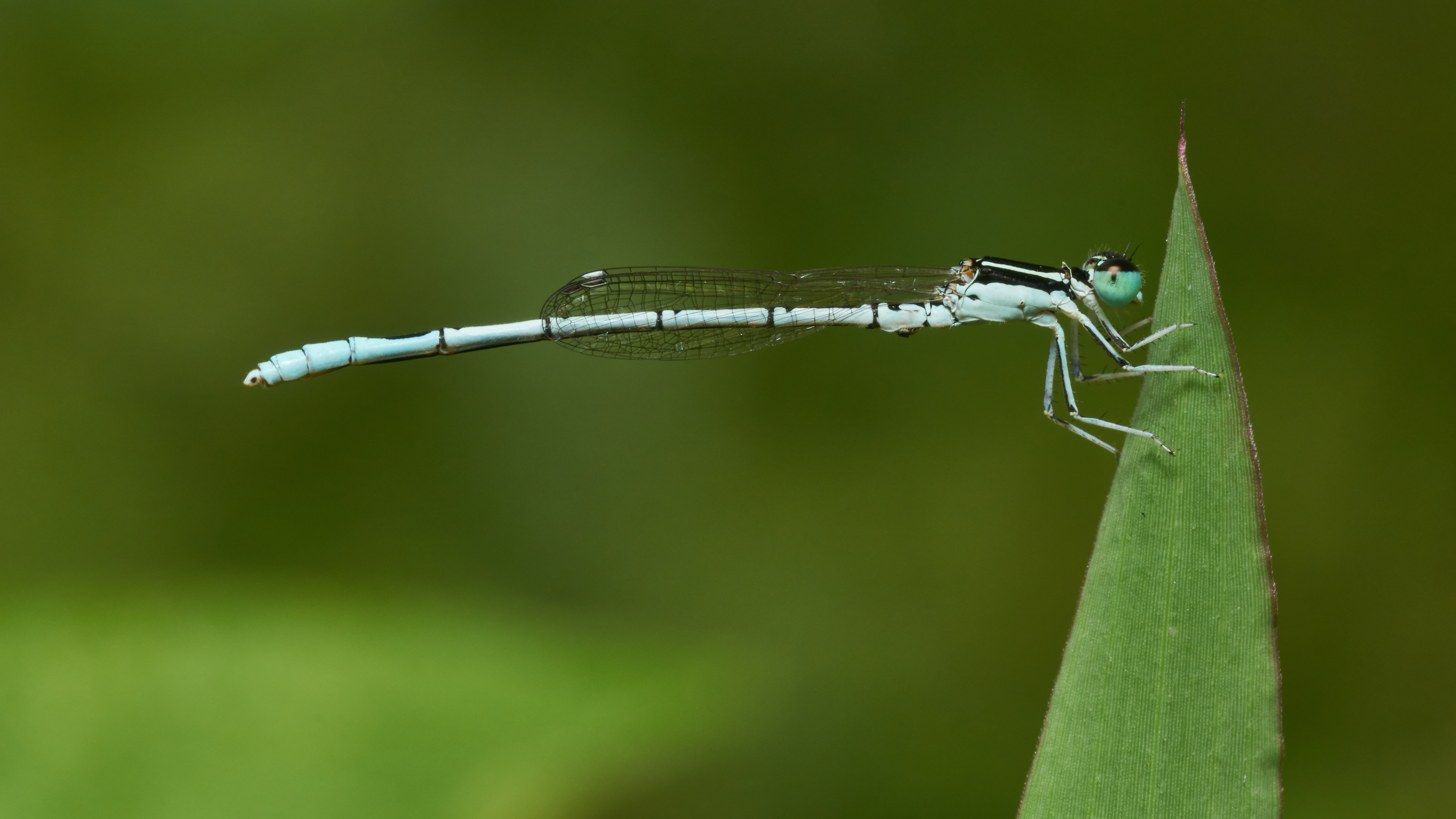 Agriocnemis pieris, White Dartlet, belongs to Agriocnemis genus of small damselflies (commonly known as Wisps or Dartlets) in Coenagrionidae's subfamily Agriocnemidinae.